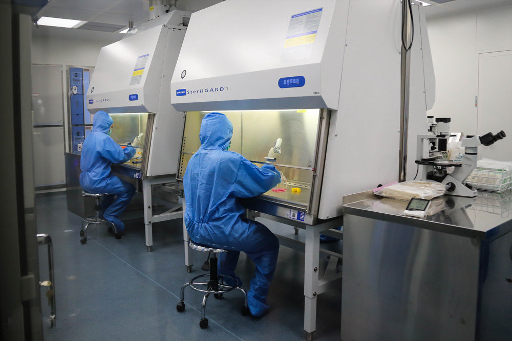 The opening ceremony of the first human cell production plant in West Asia was held May 25, 1397, with the presence of Ishaq Jahangiri, First Vice President and Seyyed Hassan Ghazizadeh Hashemi, at the Cell Tech Pharmed drug manufacturing plant.